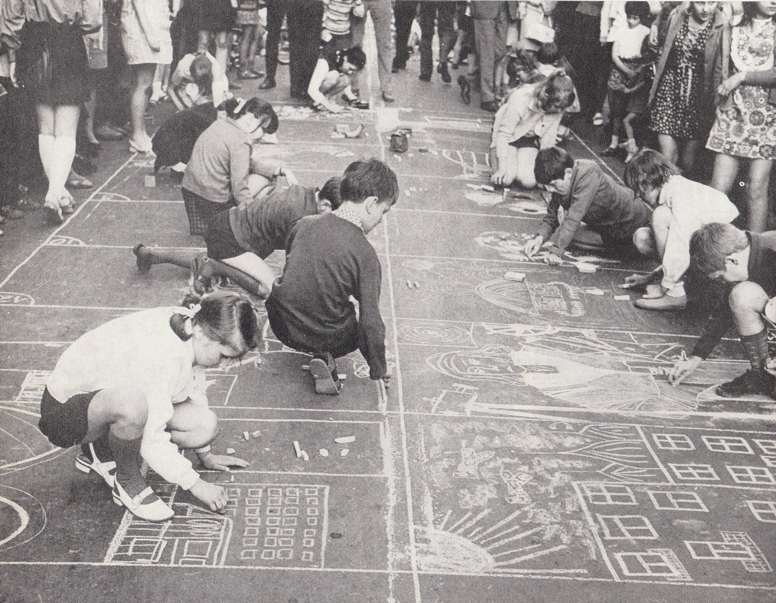 Drawing contest for children organised by "Życie Radomskie" newspaper